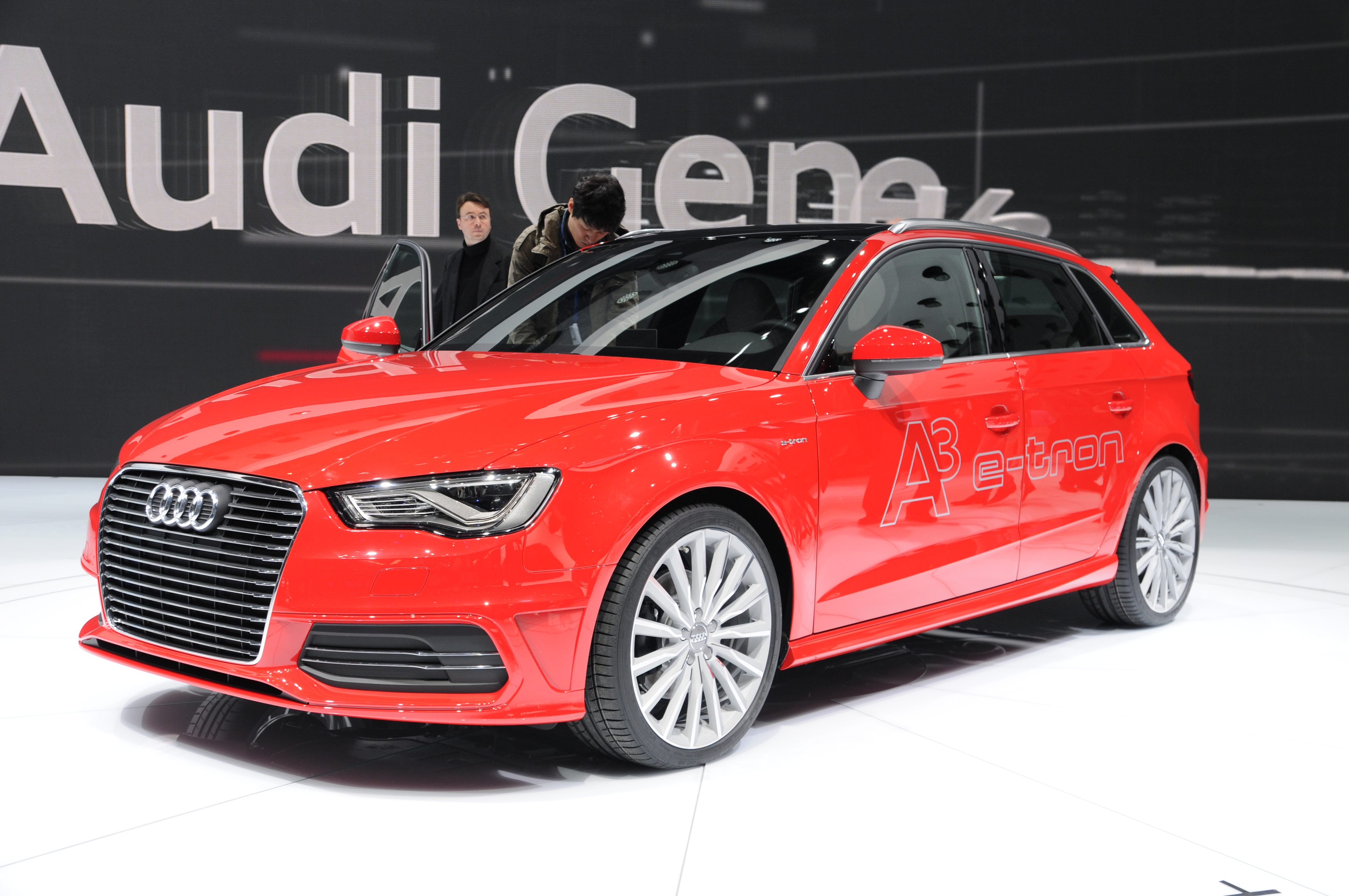 Geneva Motor Show 2013 (photos taken on the first press day)